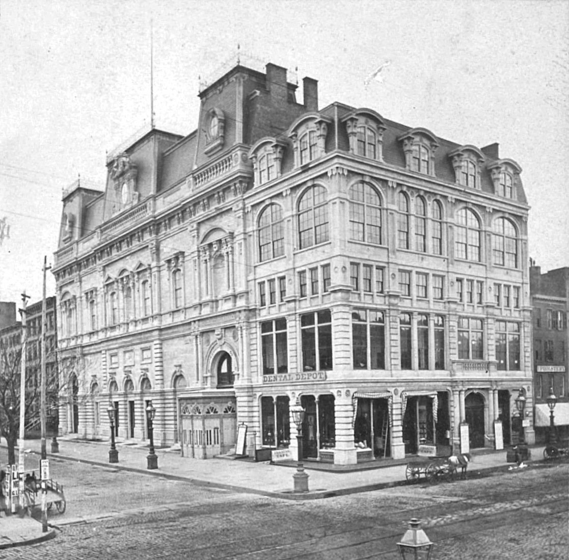 Cropped version of File:Edwin Booth's Theatre, 23rd St., between 5th and 6th Ave, from Robert N. Dennis collection of stereoscopic views.png.